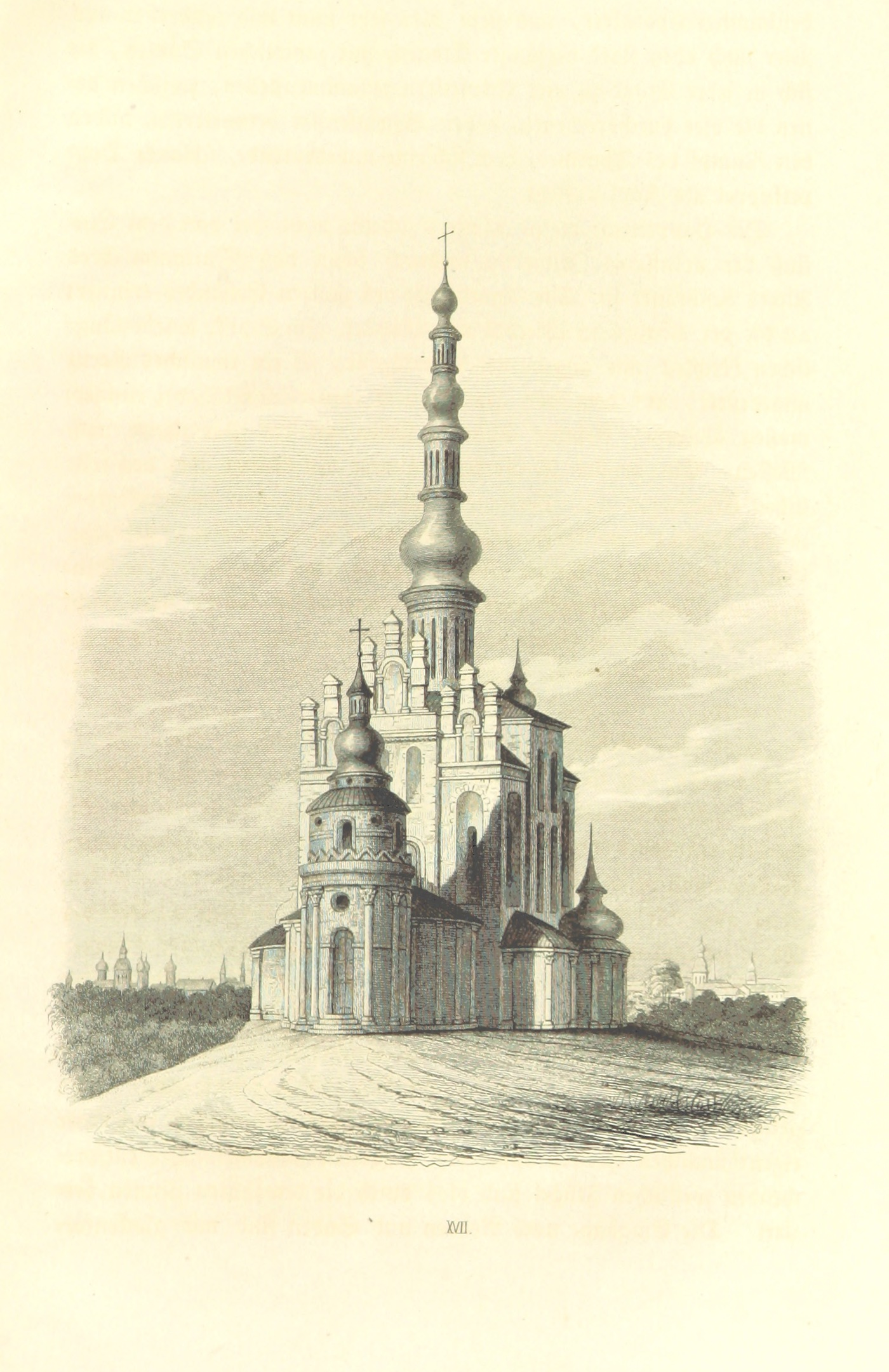 Pyatnytska Church (Chernihiv). Image taken from: Title: "Reise im Europäischen Russland in den Jahren 1840 und 1841. [With plates.]" Author: BLASIUS, Johann Heinrich. Shelfmark: "British Library HMNTS 10291.e.27." Page: 645 Place of Publishing: Braunschweig Date of Publishing: 1844 Issuance: monographic Identifier: 000374145 Explore: Find this item in the British Library catalogue, 'Explore'. Download the PDF for this book (volume: 0) Image found on book scan 645 (NB not necessarily a page number) Download the OCR-derived text for this volume: (plain text) or (json) Click here to see all the illustrations in this book and click here to browse other illustrations published in books in the same year. Order a higher quality version from here.